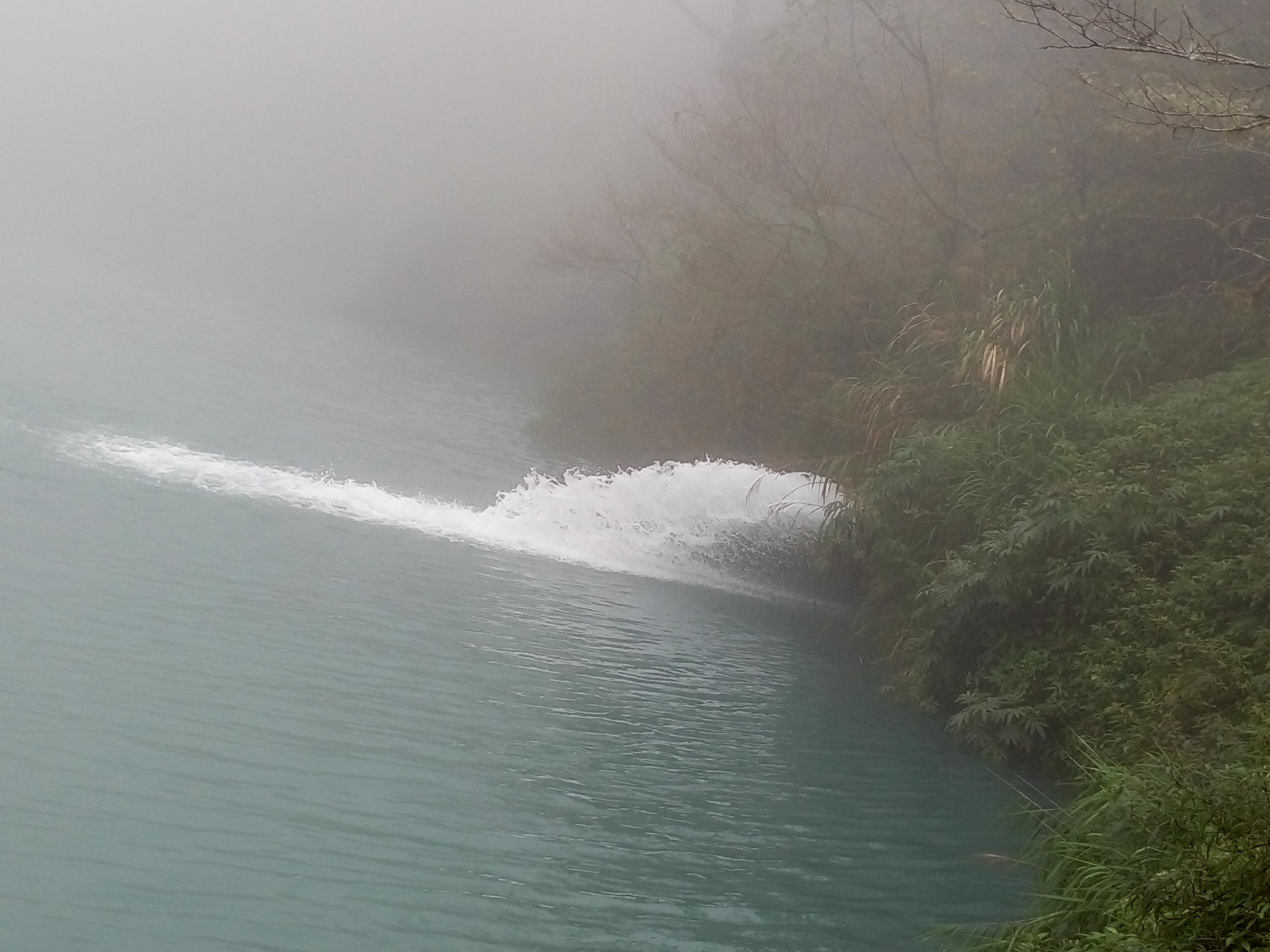 Long Creek pumping station long Creek long Creek, seepage water back to adjust pool water outlet